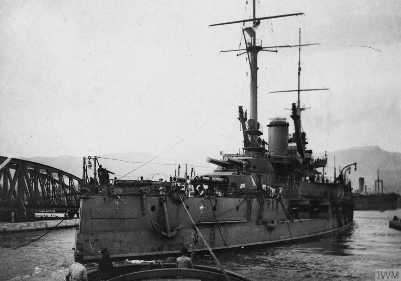 The battleship Bretagne in Toulon